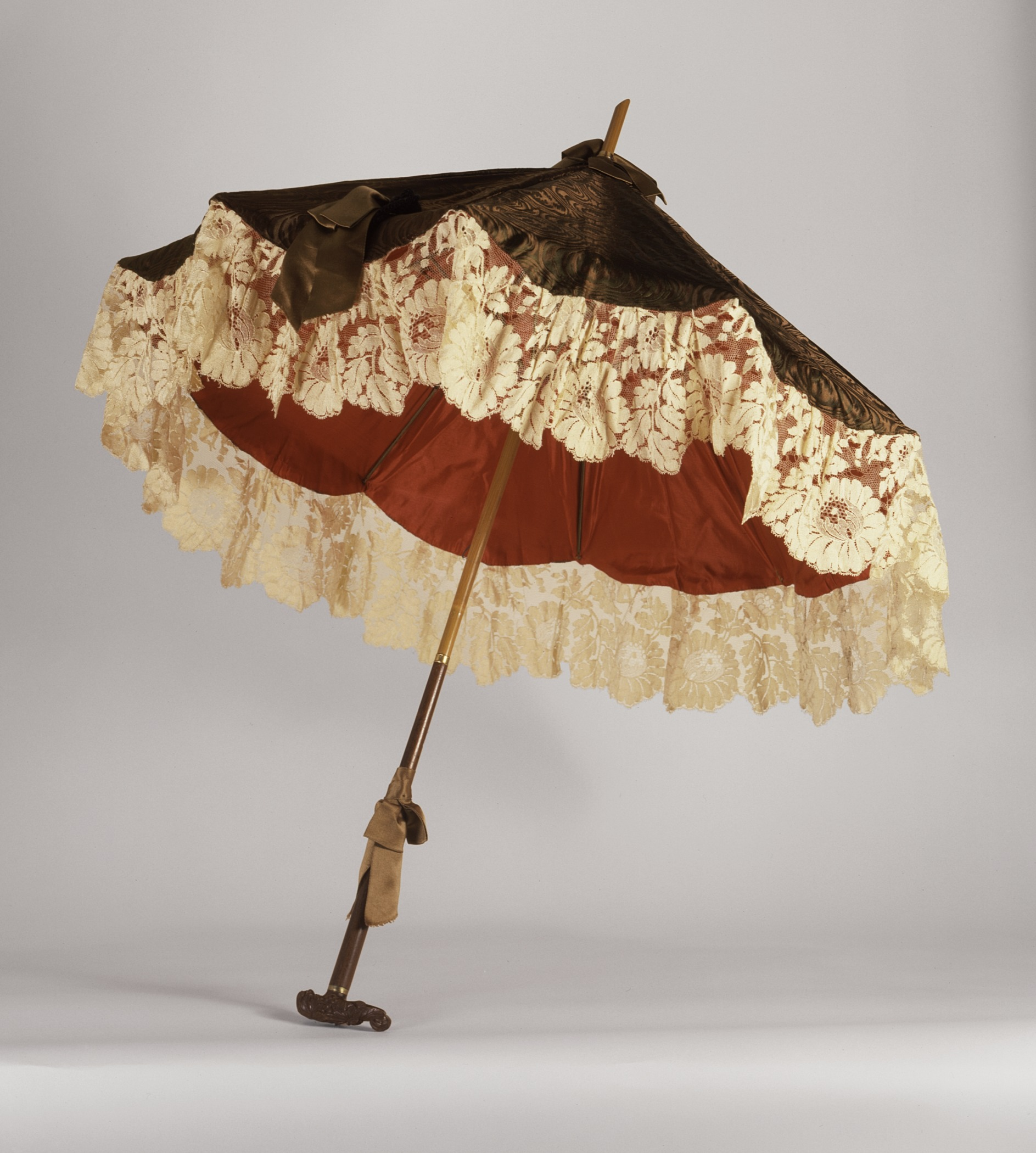 Probably United States, circa 1880 Costumes Wood, metal, figured silk Gift of Mrs. John Townsend Smith (M.86.413.13) Costume and Textiles